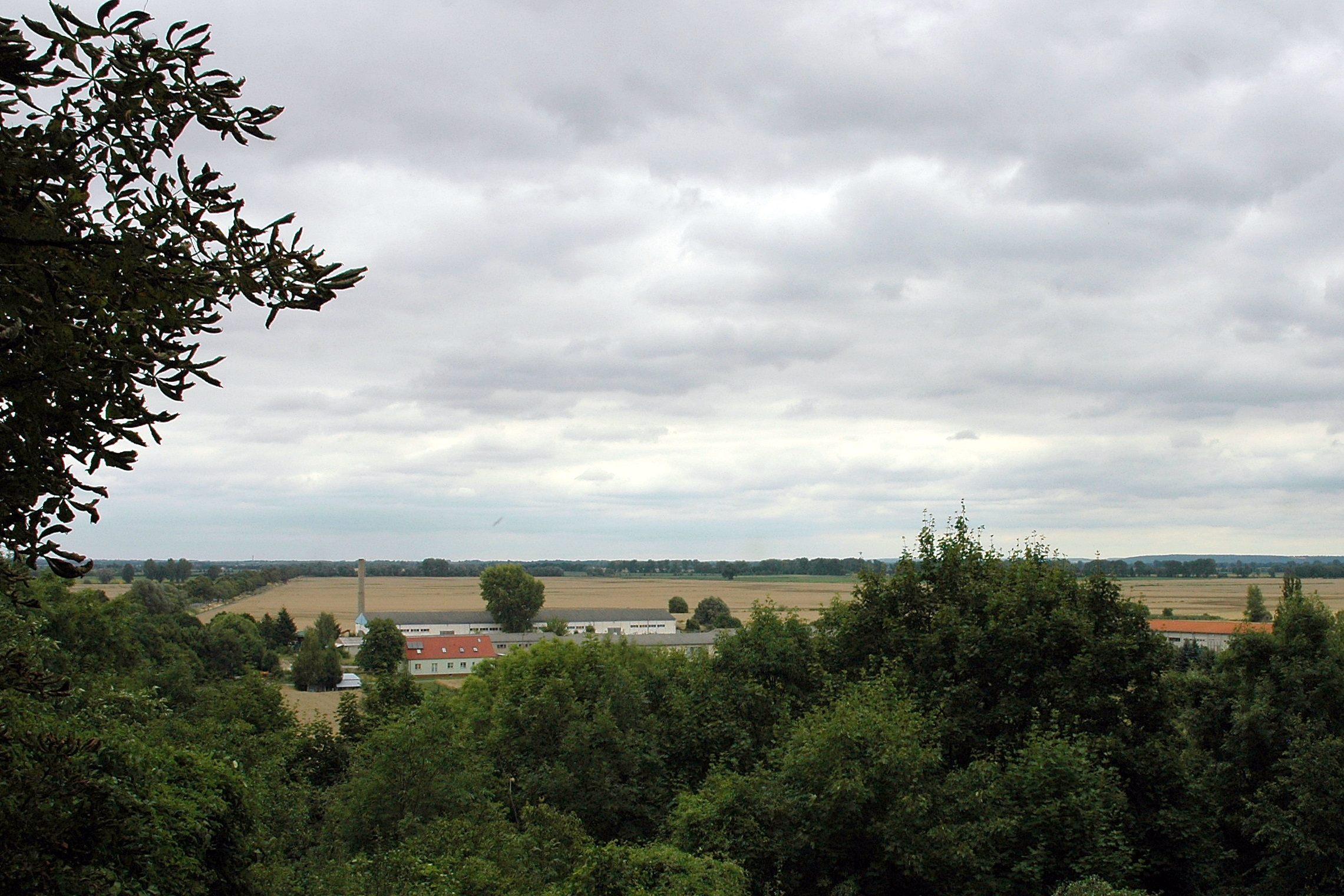 View to Oderbruch